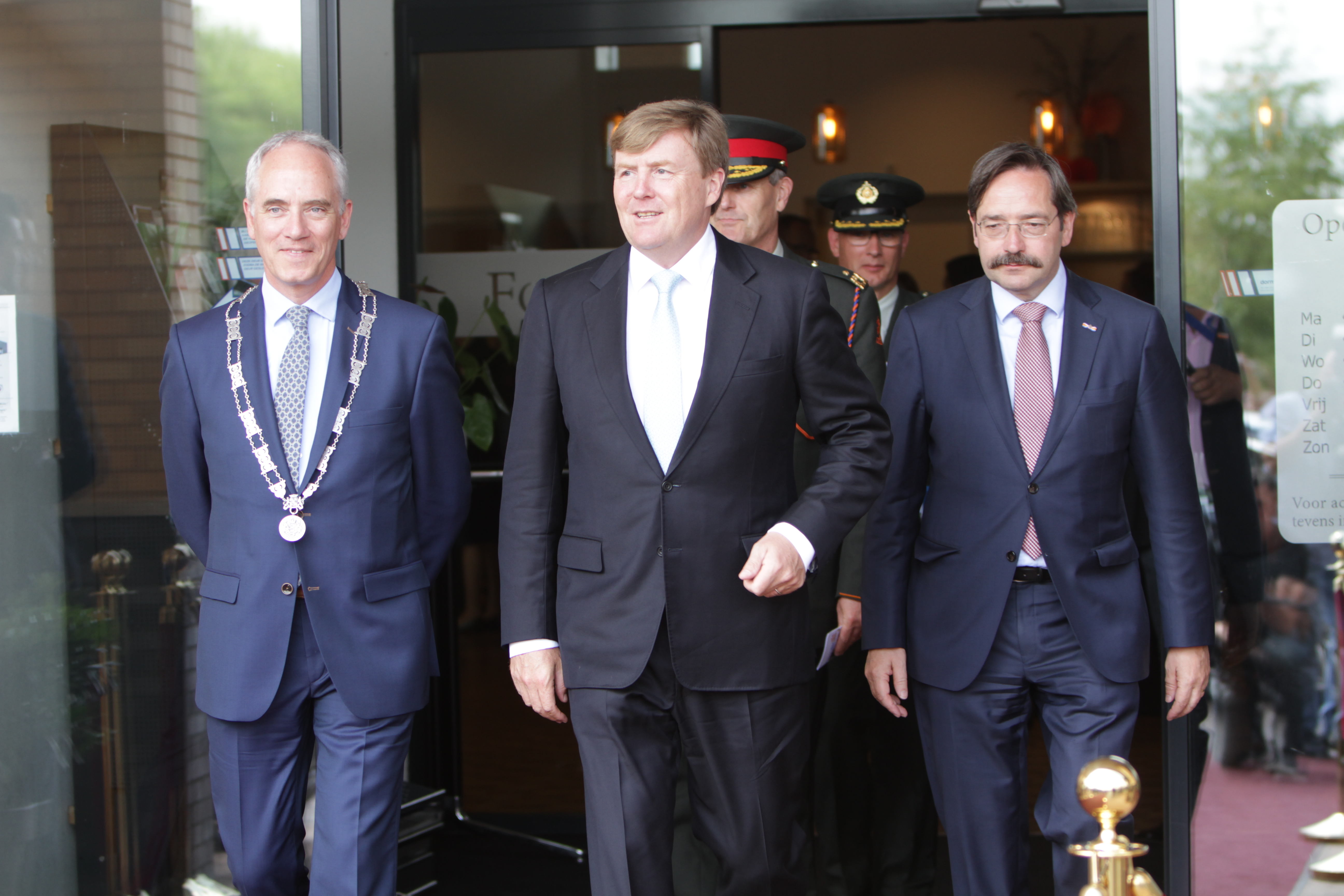 50th Anniversary Parade